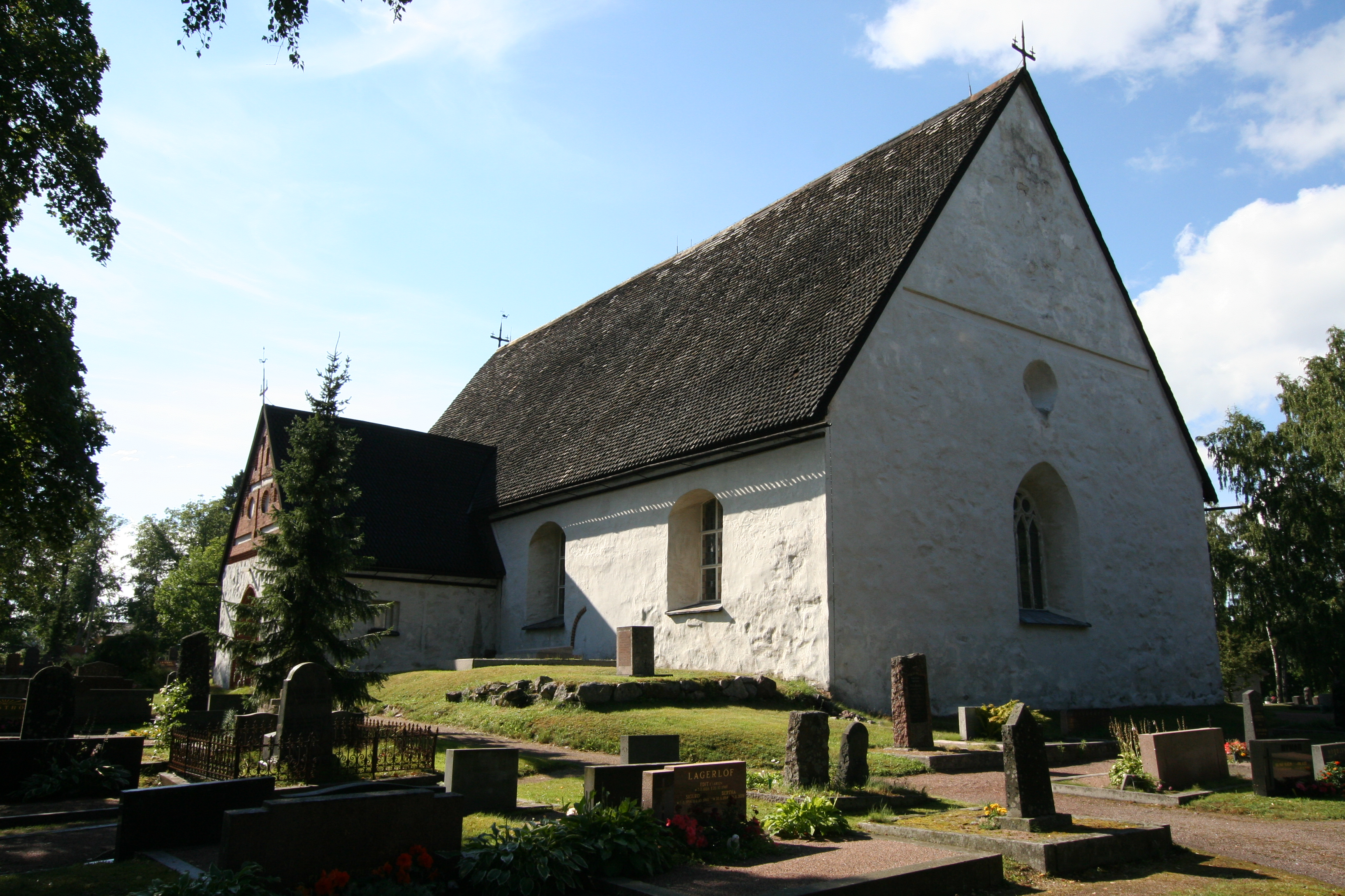 St Michaels Church Pernå, Finland